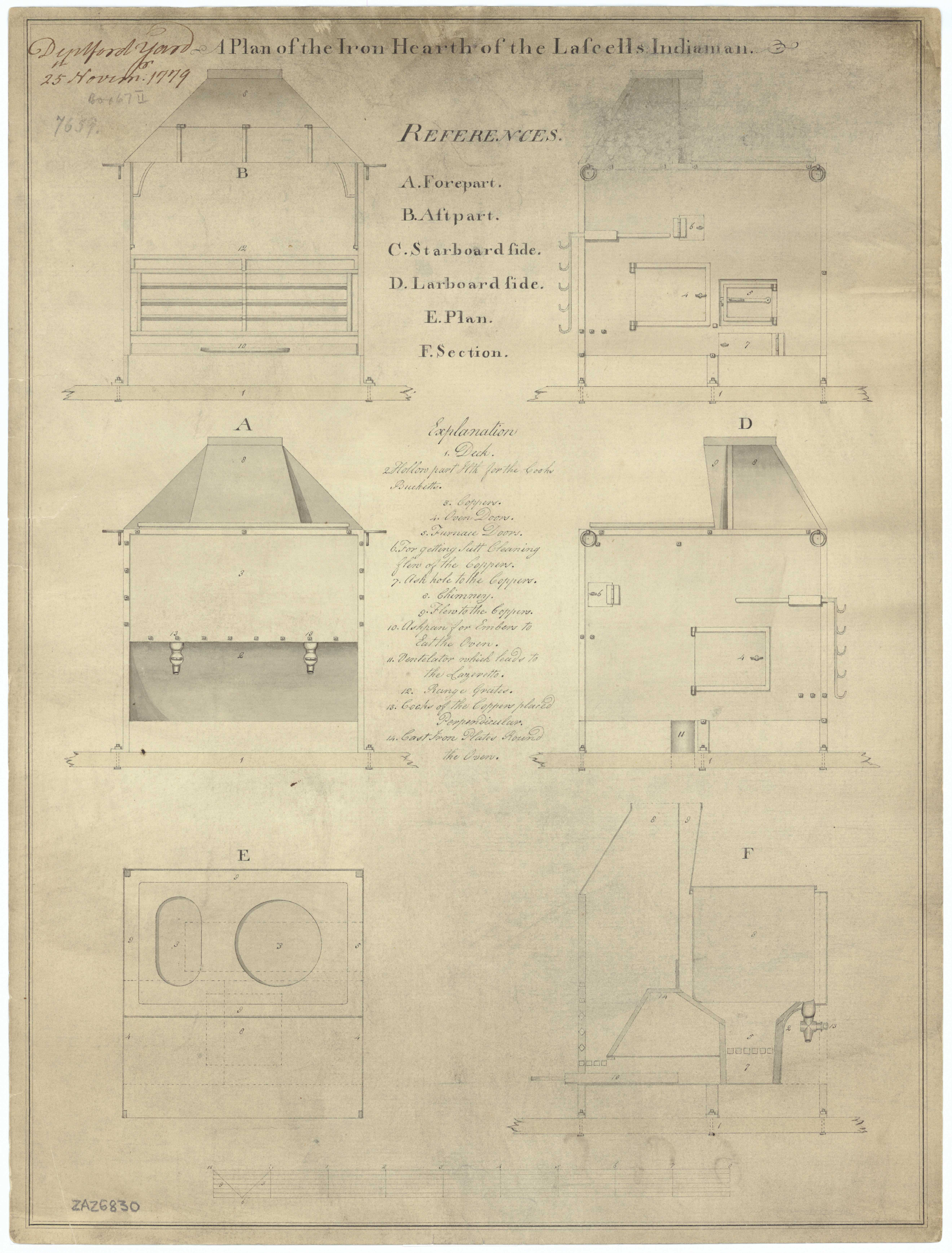 Lascelles (1779) Scale: Graduated bar scale. Plan showing the elevation of the front, back and both sides, the plan, and the section for the iron hearth on the Lascelles (1779), an East Indiaman. The plan includes an explanation key. hearth